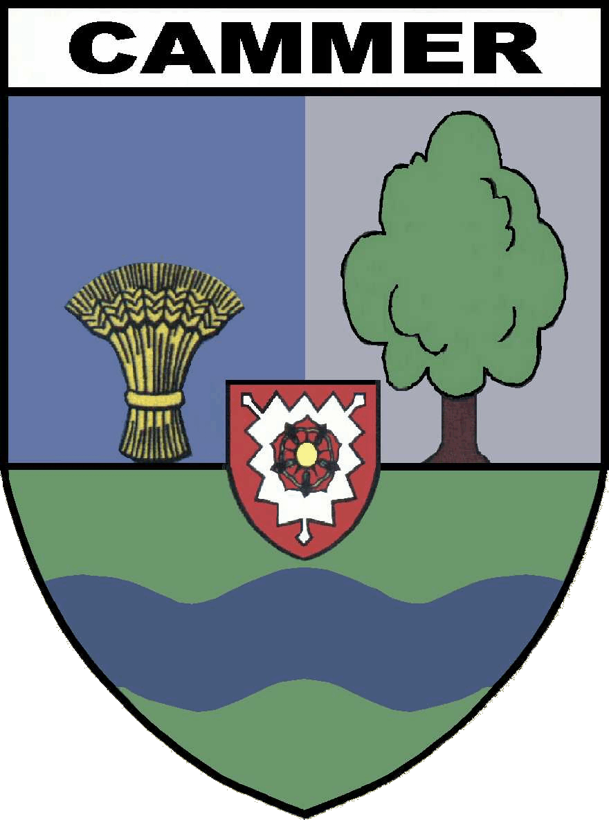 Coat of arms of Cammer.